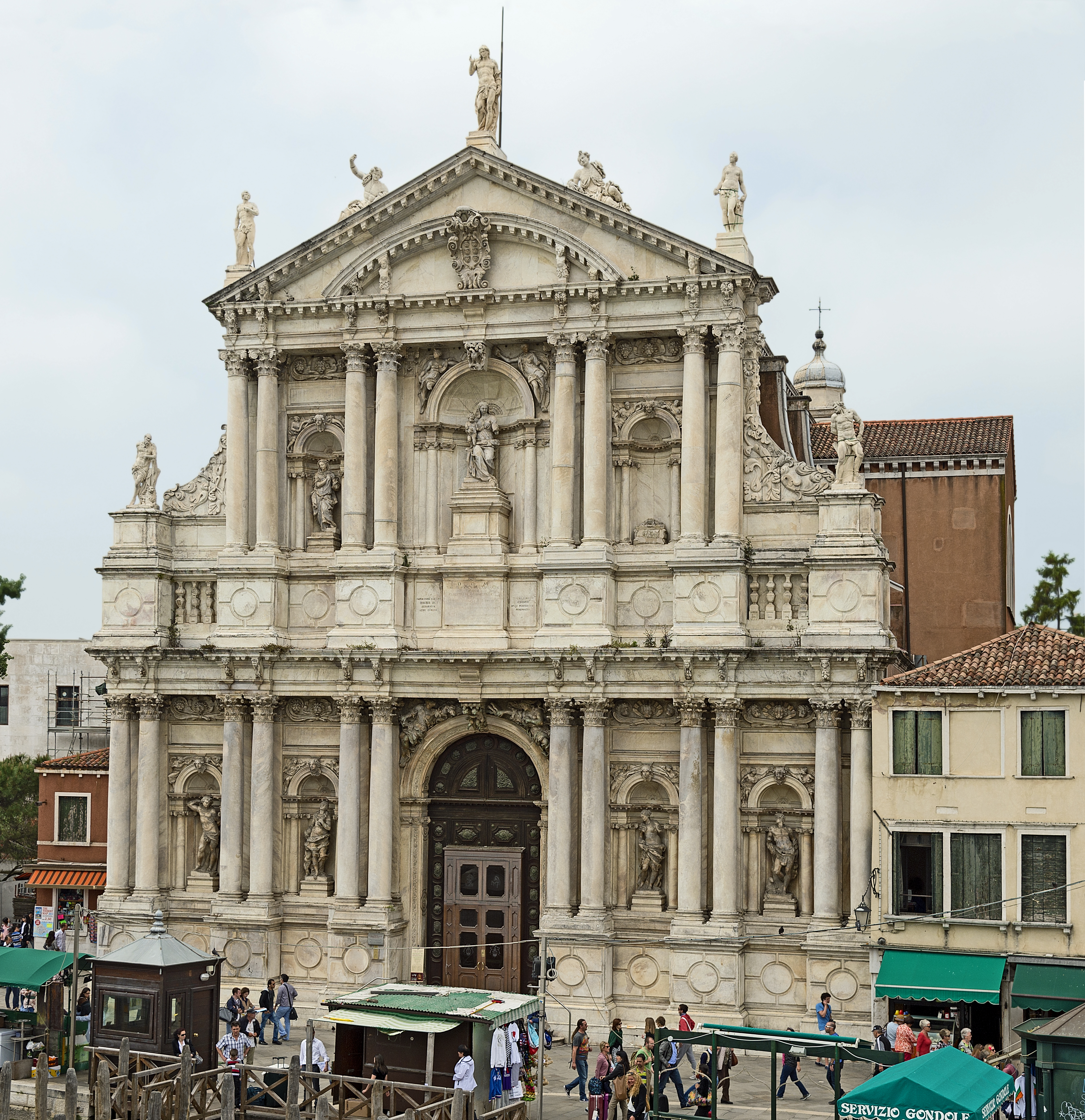 Church Santa Maria degli Scalzi Venice. Facade on Grand Canal.